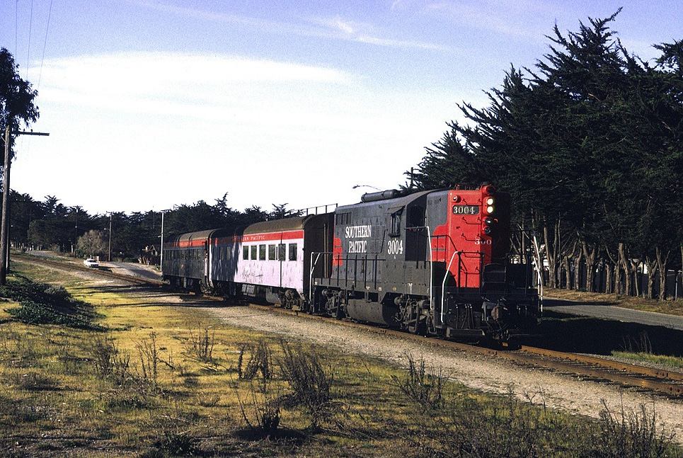 SP #3004 with the Del Monte at Marina in its final month of operations